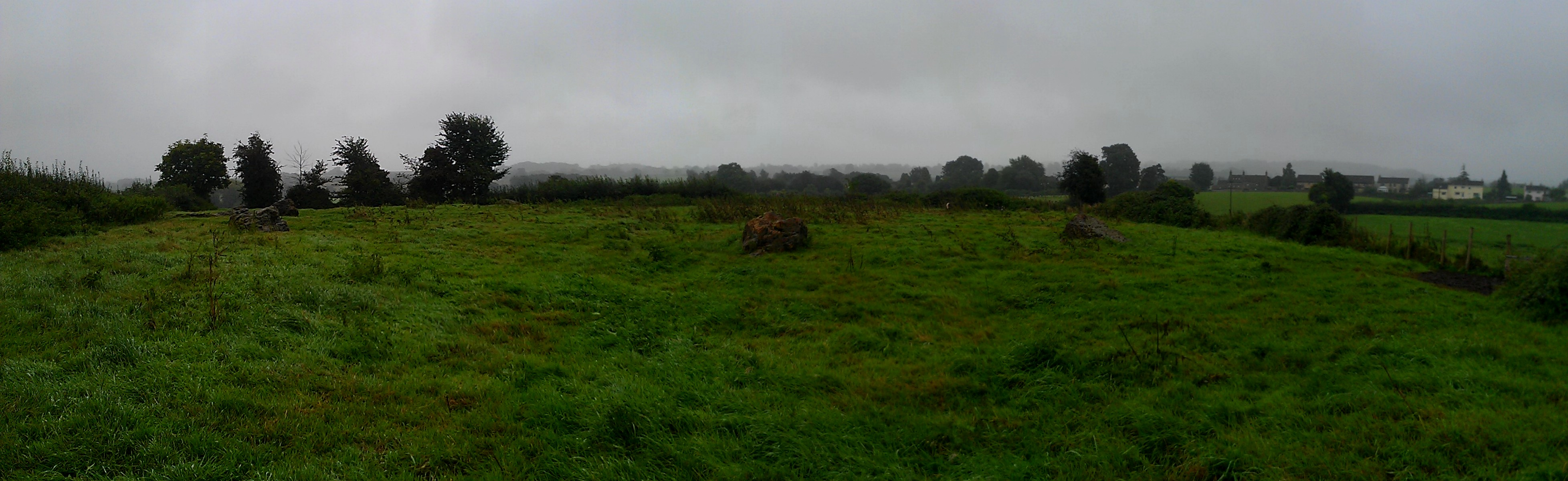 Panoramic view of the southwest circle, one of the Stanton Drew stone circles in Somerset.